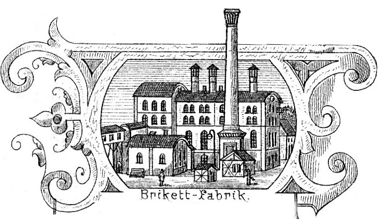 Briquette-Faktory "Hohenzollern" in Liebenwerda in 1898